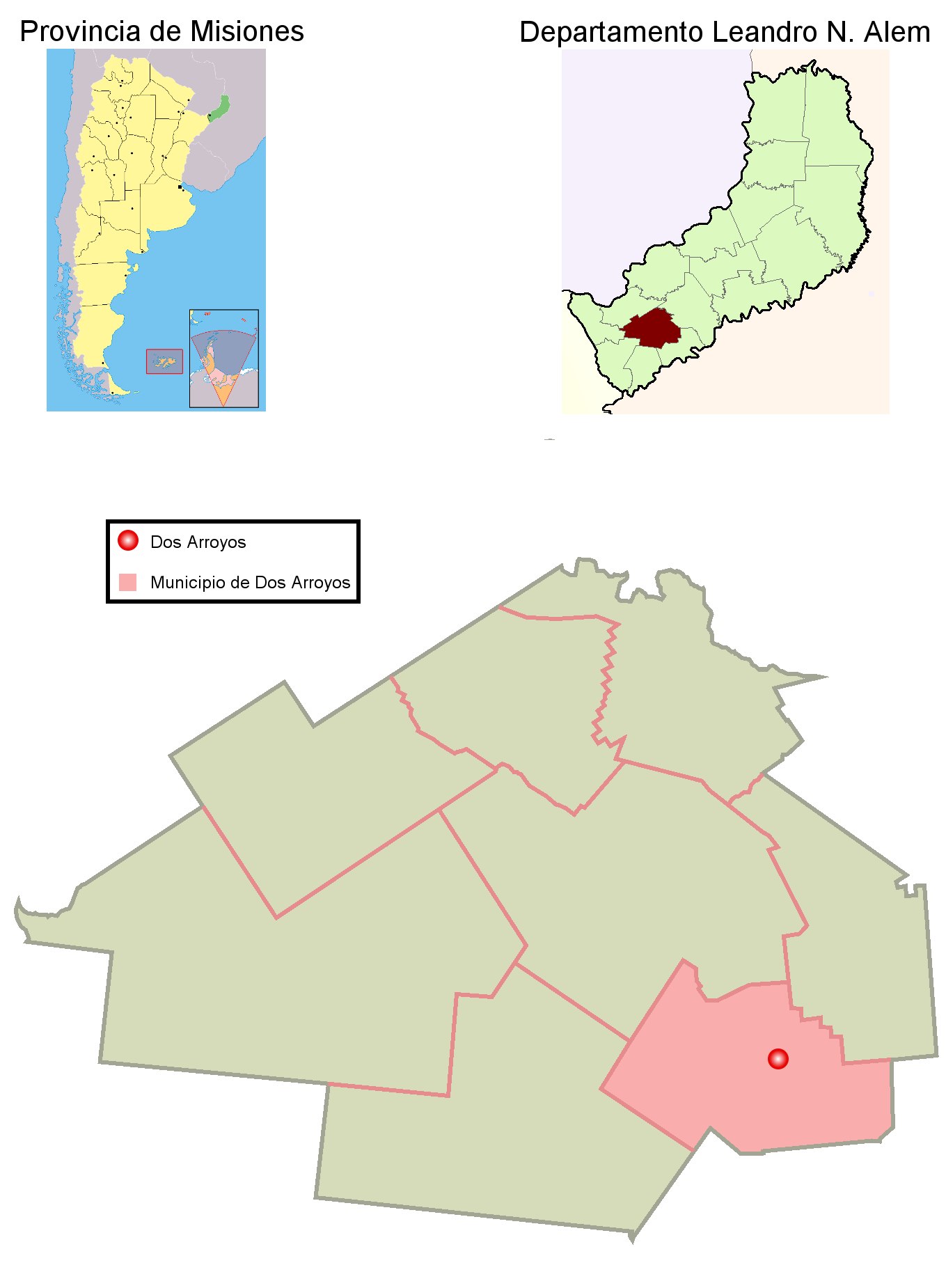 Map showing municipio of Dos Arroyos in Leandro N. Alem department, Misiones Province, Argentina. Red point marks Dos Arroyos town.